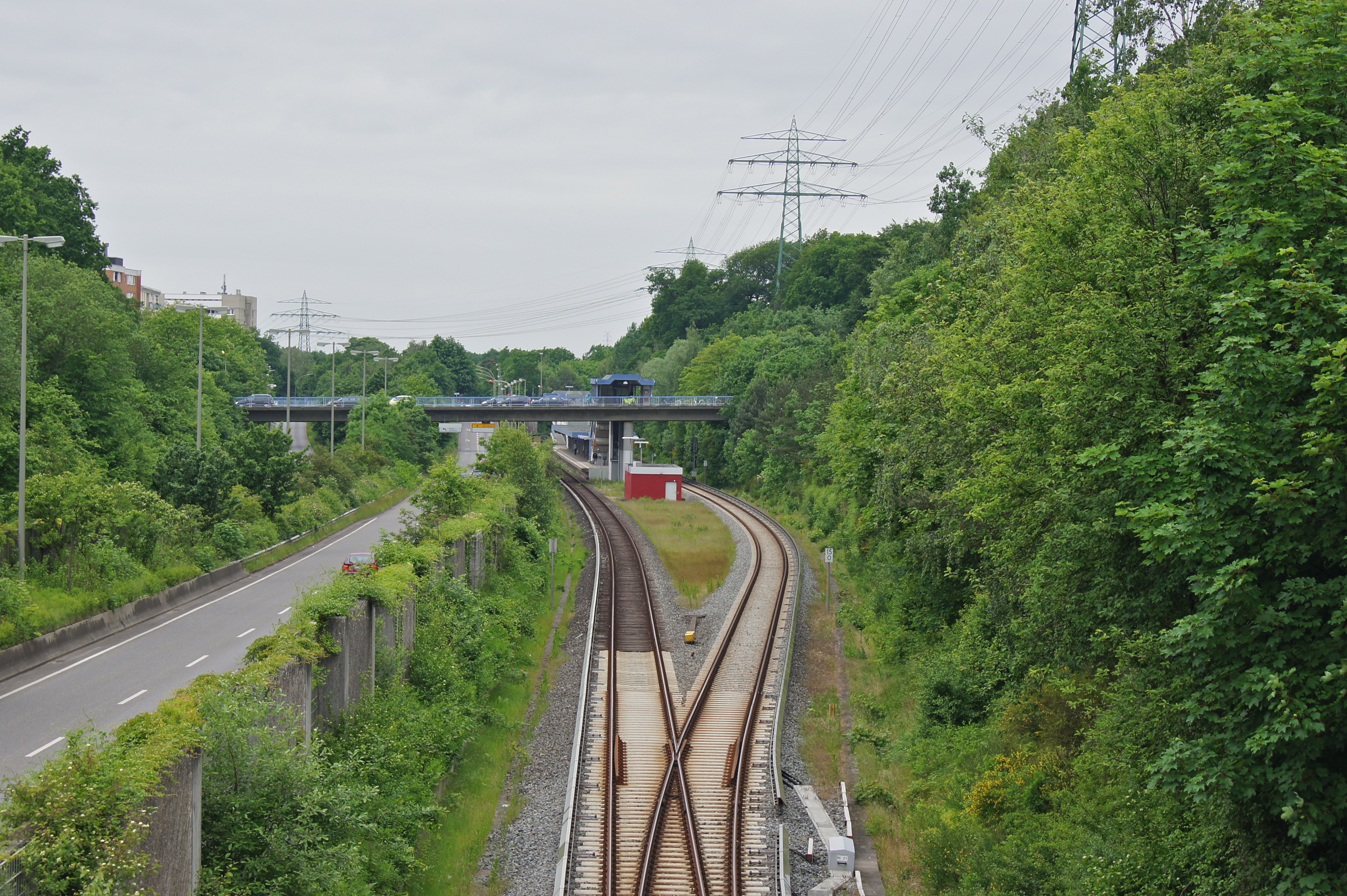 Hamburg (Rissen), Germany: High Street: Wedeler Landstrasse